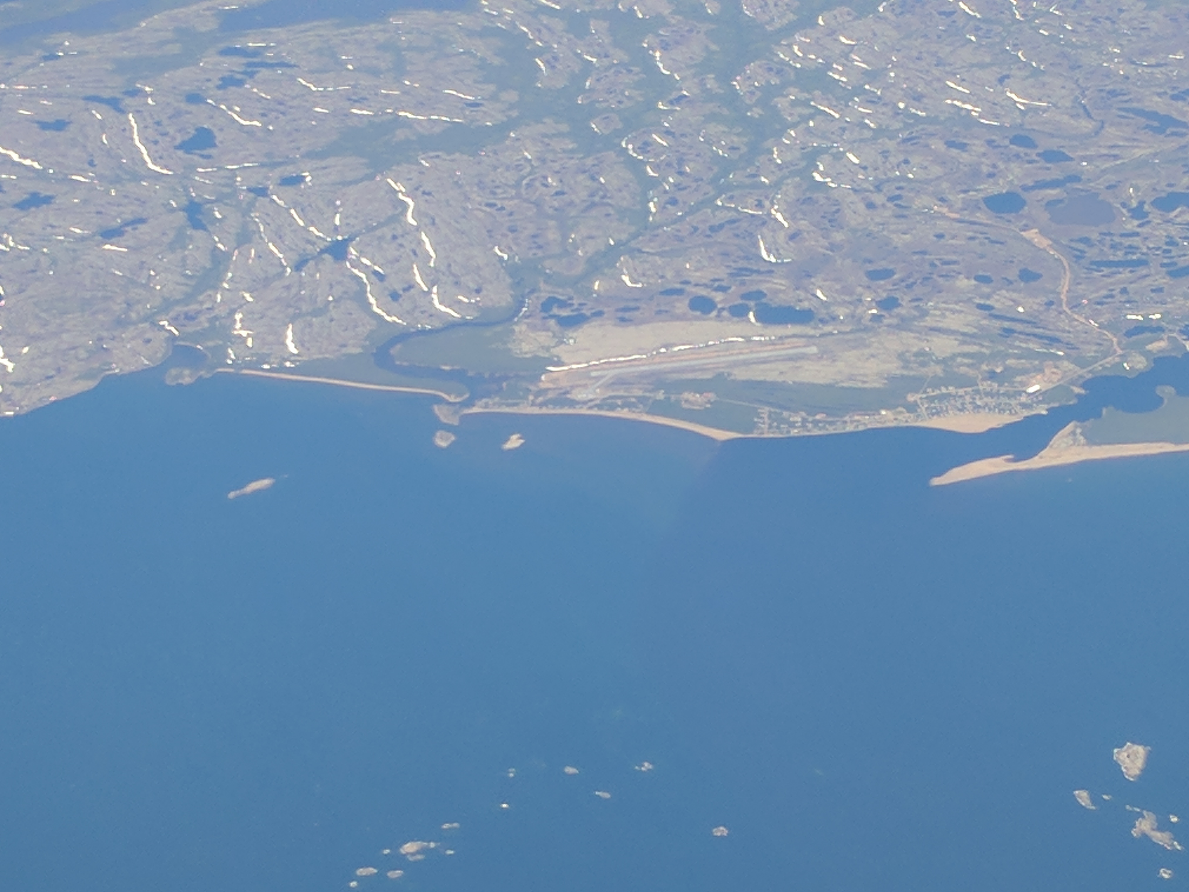 Chevery, Quebec from the air taken on a flight from Ireland to Boston